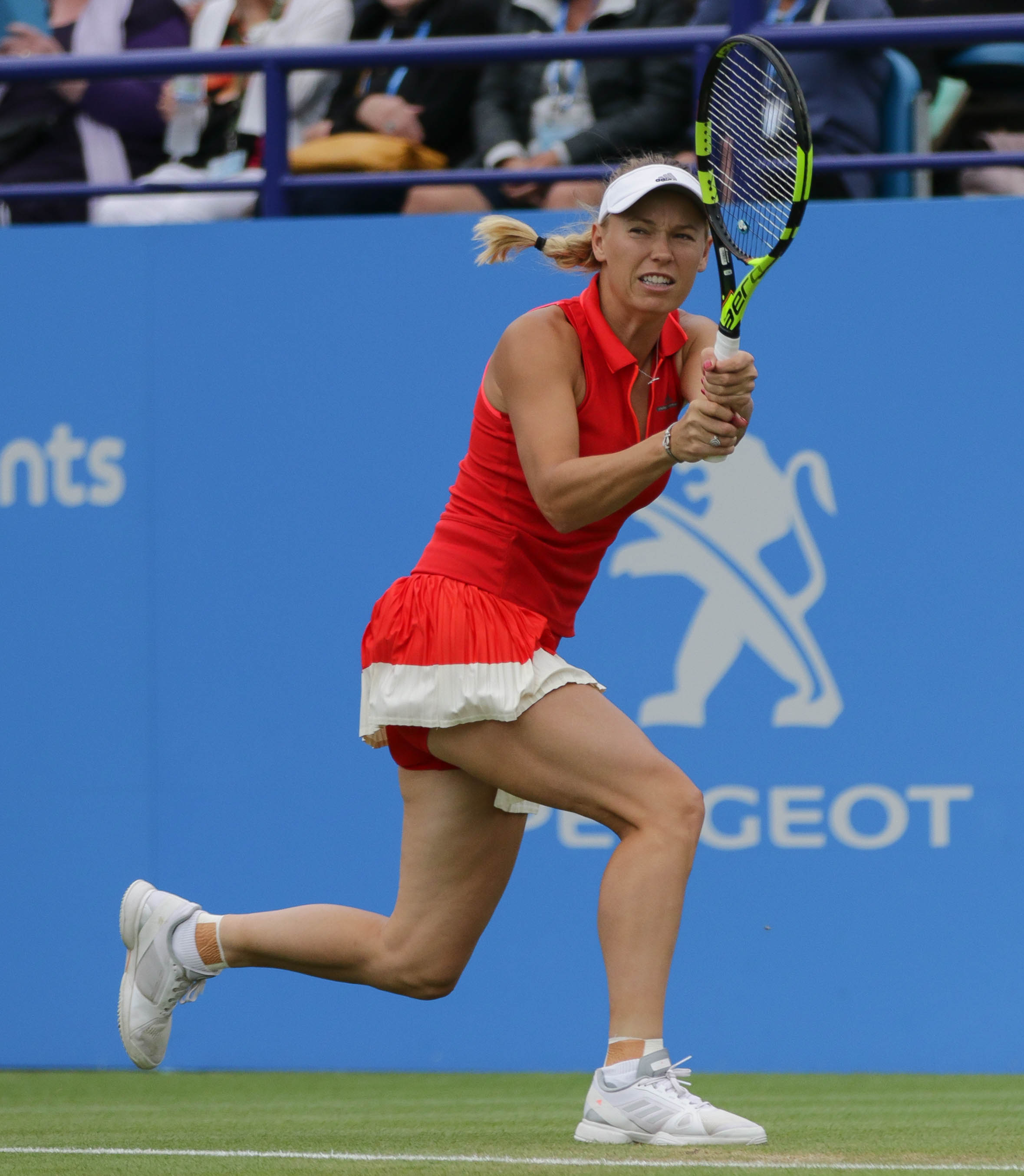 Aegon International Women's Final 2017 Pliscova v Wozniacki-101.jpg